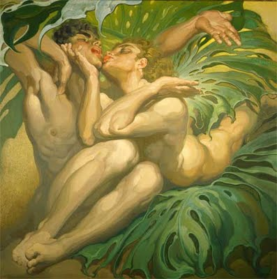 Primavera